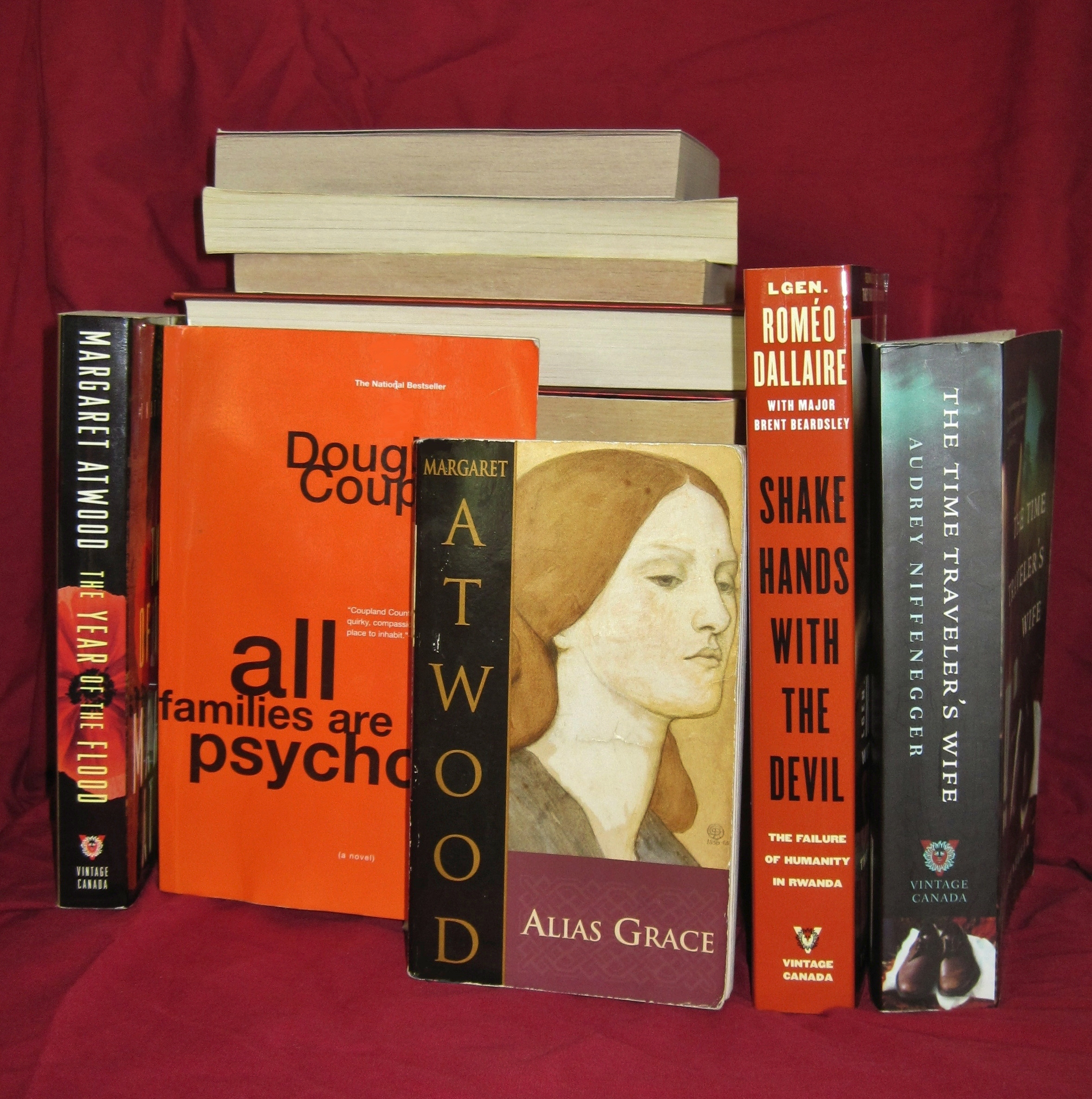 A small collection of books published by Random House of Canada